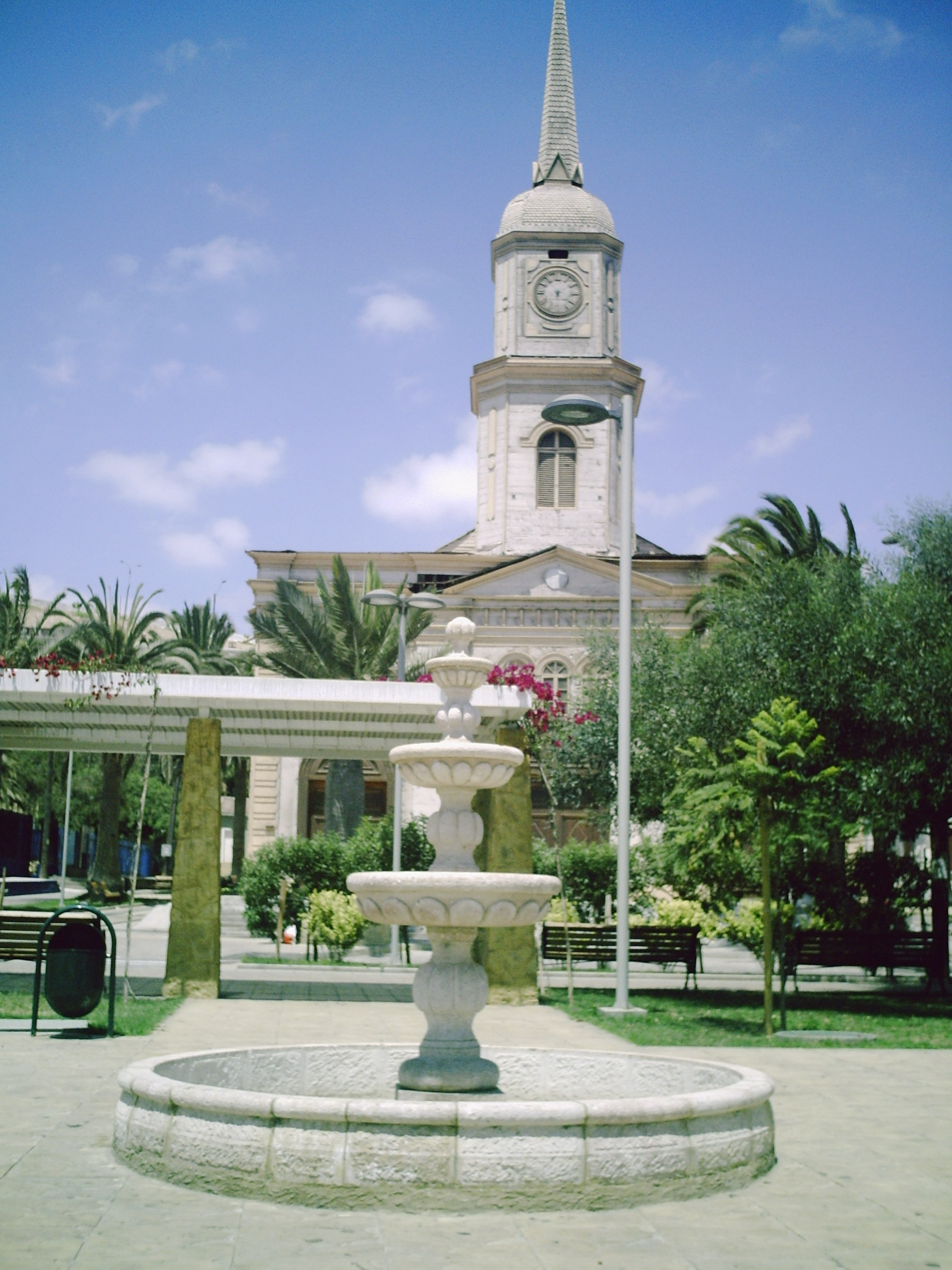 MONUMENTO NACIONAL UBICADA EN LA COMUNA DE FREIRINA This is a photo of a national monument in Chile: 338